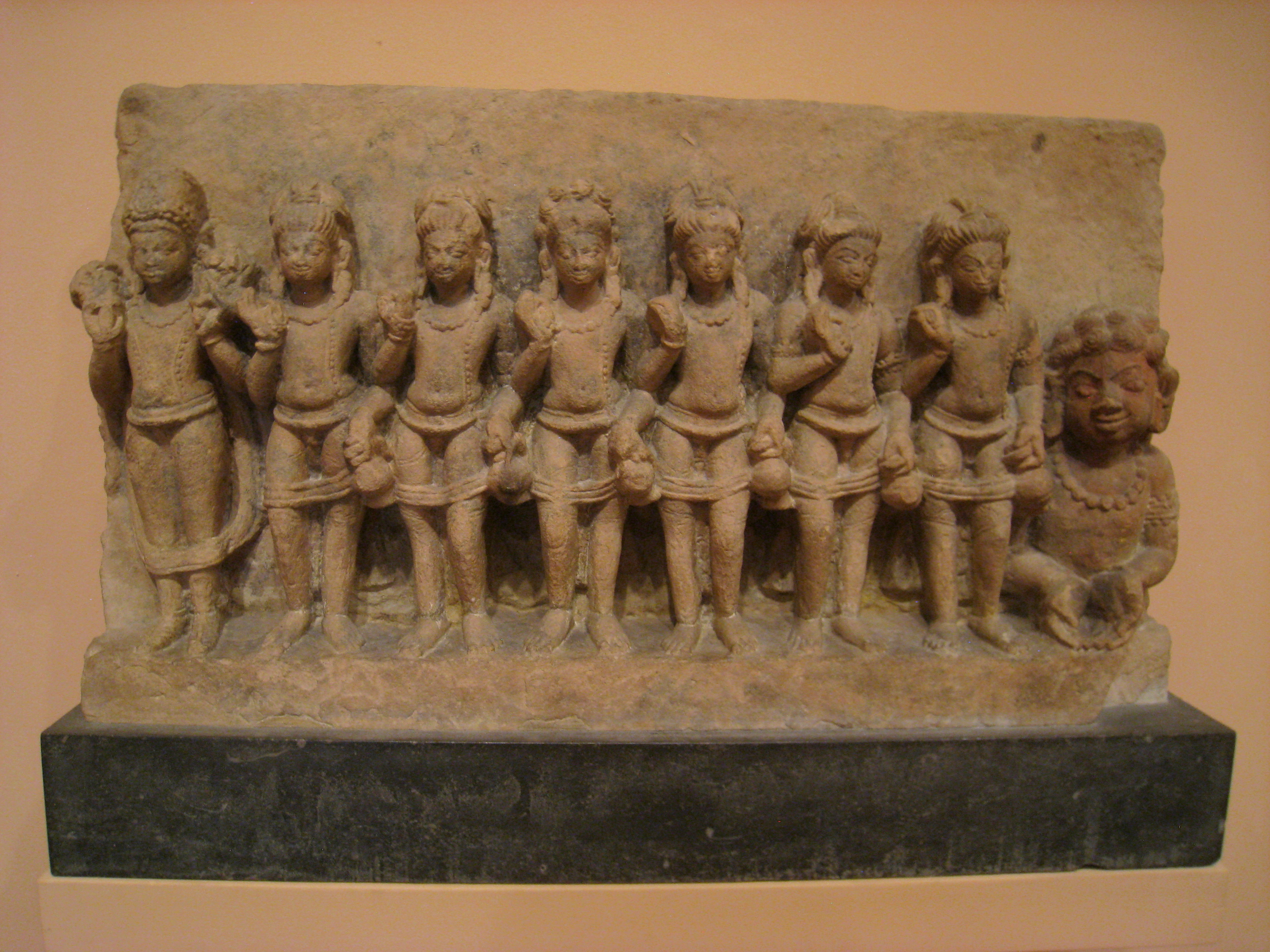 Navagraha (Nine Planets), Central India, Uttar Pradesh, 550-575 AD, sandstone relief, Asian collection in the Worcester Art Museum, Worcester, Massachusetts, USA. The museum permits photography and does not restrict usage of the photographs.